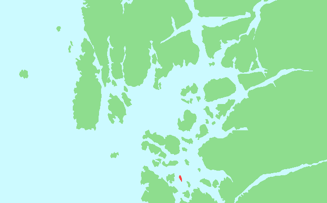 Locator map of Vassøy, Rogaland, Norway